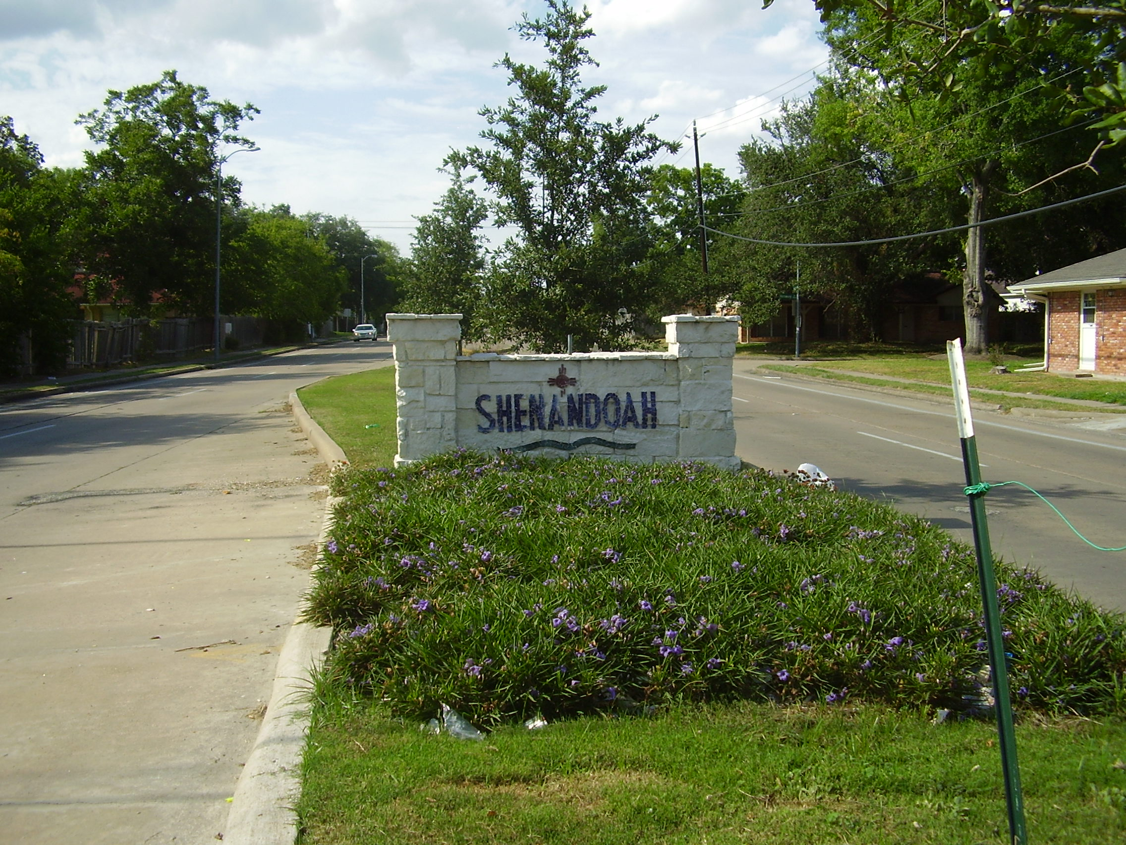 Shenandoah, Houston subdivision marker